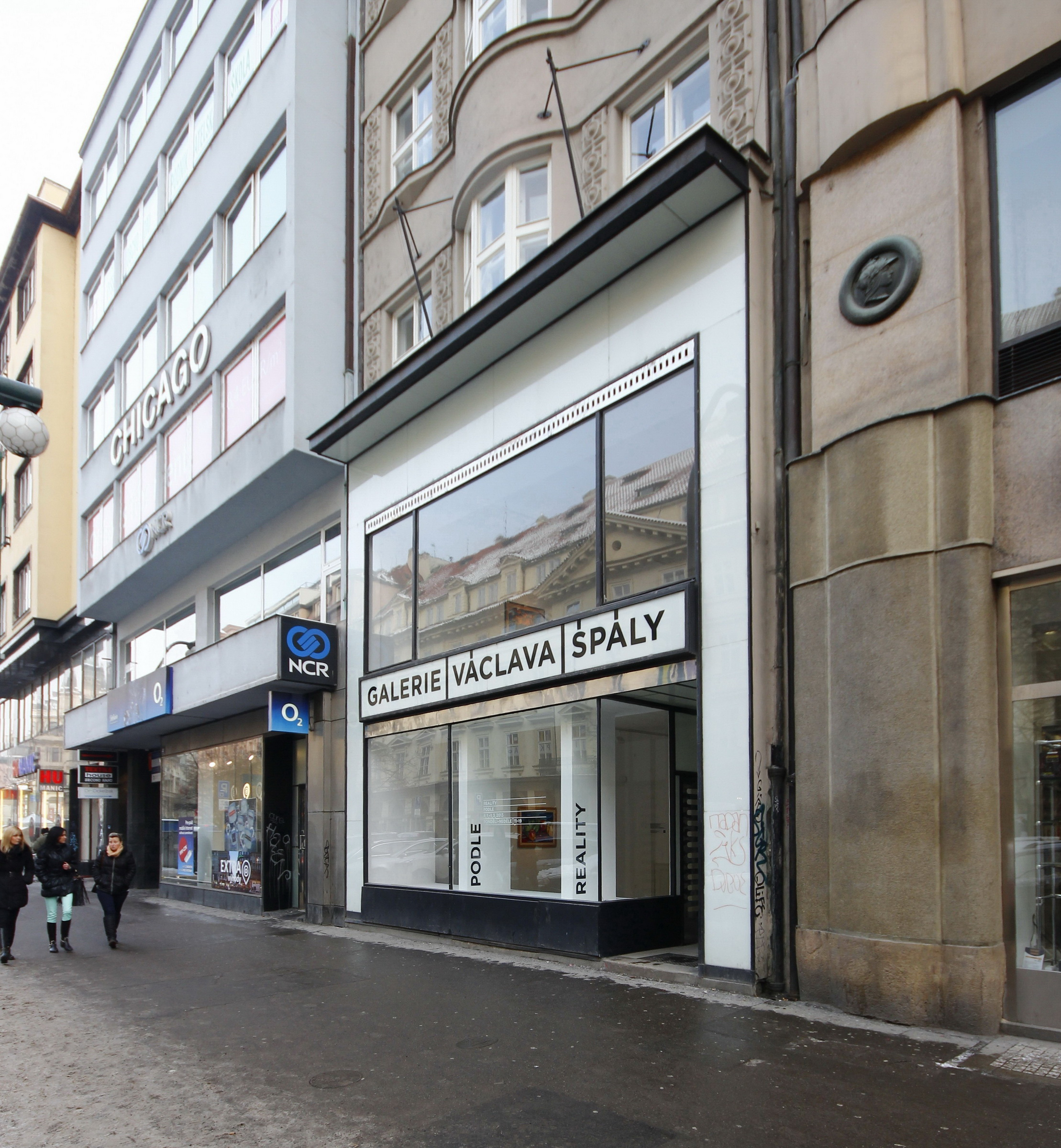 František Zelenka: The Václav Špála Gallery, Národní třída, Prague, Czech Republic